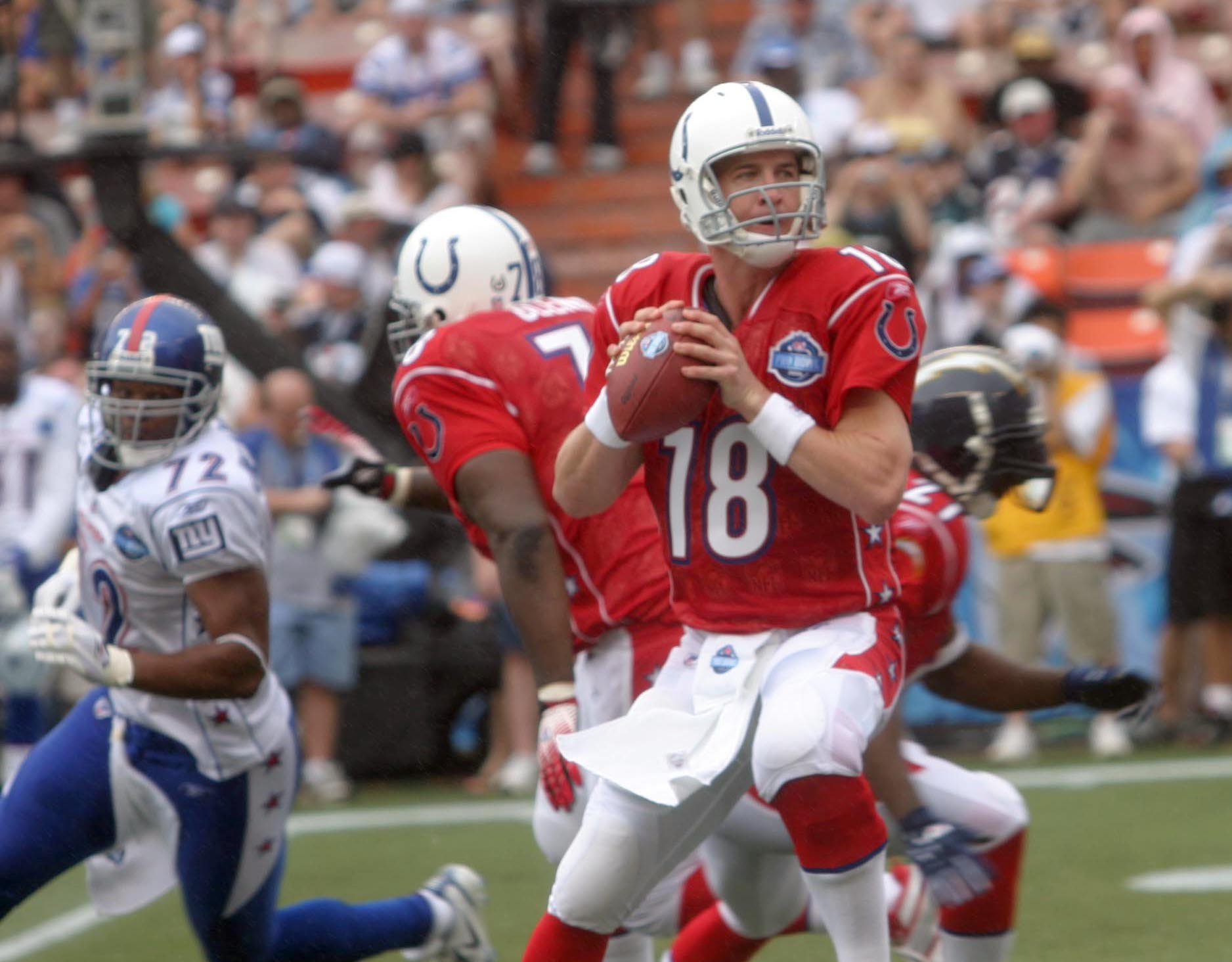 AFC quarterback Peyton Manning, of the Indianapolis Colts, looks down field for a open man. Manning threw three interceptions during the first half of the 2006 Pro Bowl in Hawaii.